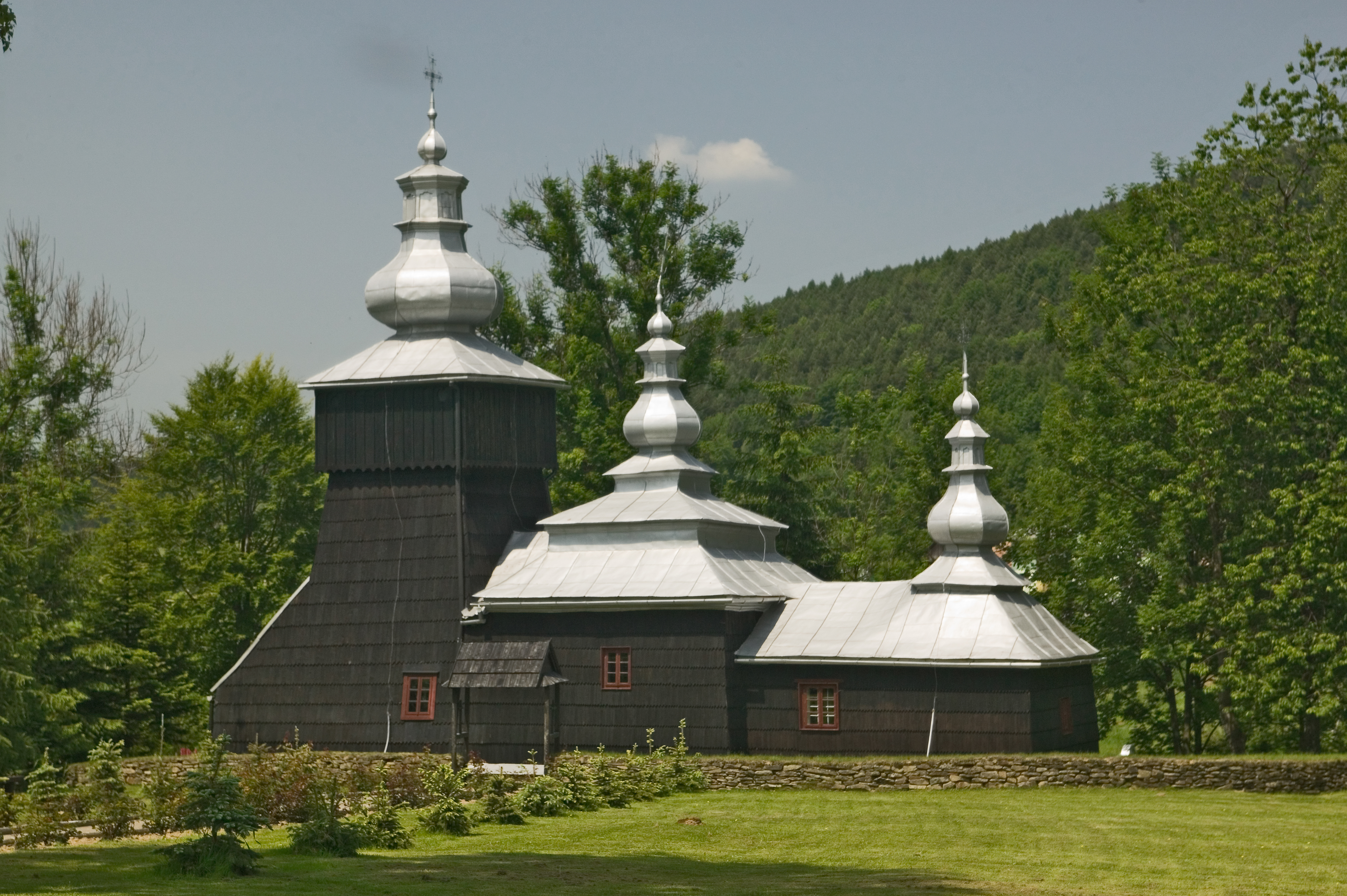 Saint Demetrius church in Czarna, Lesser Poland Voivodeship